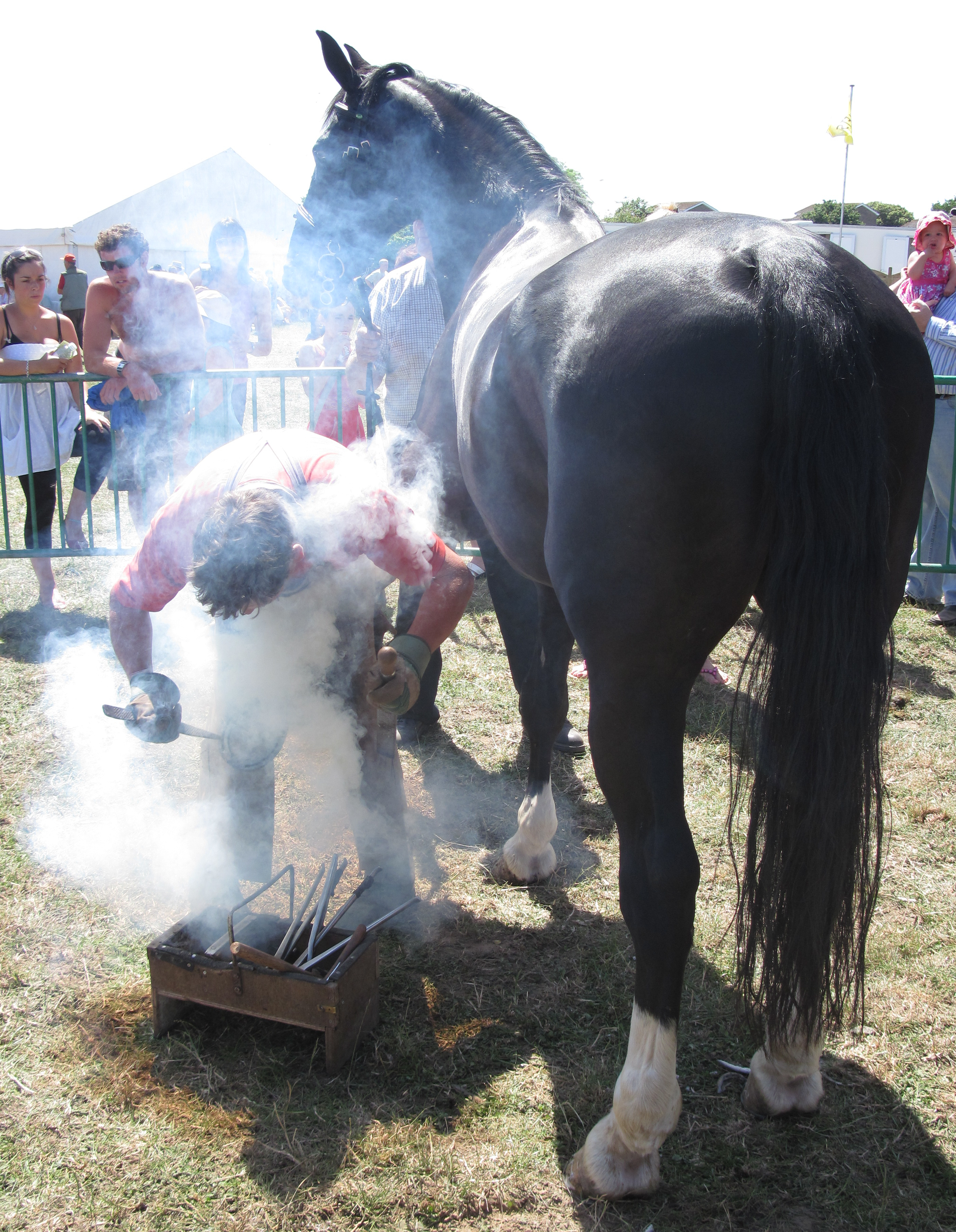 A farrier at the West Show, Jersey, 10-11 July 2010